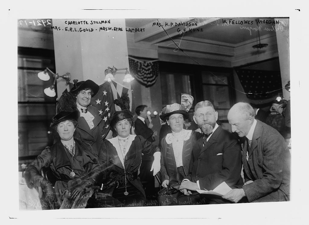 Bain News Service,, publisher. Group: Charlotte Stillman, Mrs. Elgin R. L. Gould, Mrs. W. Eyre Lambert, Mrs. H. P. Davidson, George Frederick Kunz, and William Fellowes Morgan. Photo by Bain News Service Portrait [between ca. 1910 and ca. 1915] 1 negative : glass ; 5 x 7 in. or smaller. Notes: Title from unverified data provided by the Bain News Service on the negatives or caption cards. Forms part of: George Grantham Bain Collection (Library of Congress). Format: Glass negatives. Repository: Library of Congress, Prints and Photographs Division, Washington, D.C. 20540 USA, General information about the Bain Collection is available at Persistent URL: Call Number: LC-B2- 2921-13